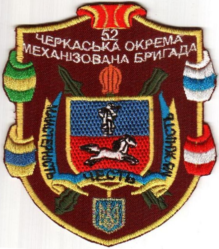 Shoulder sleeve insignia of the Ukrainian Army 52nd Mechanized Infantry Brigade